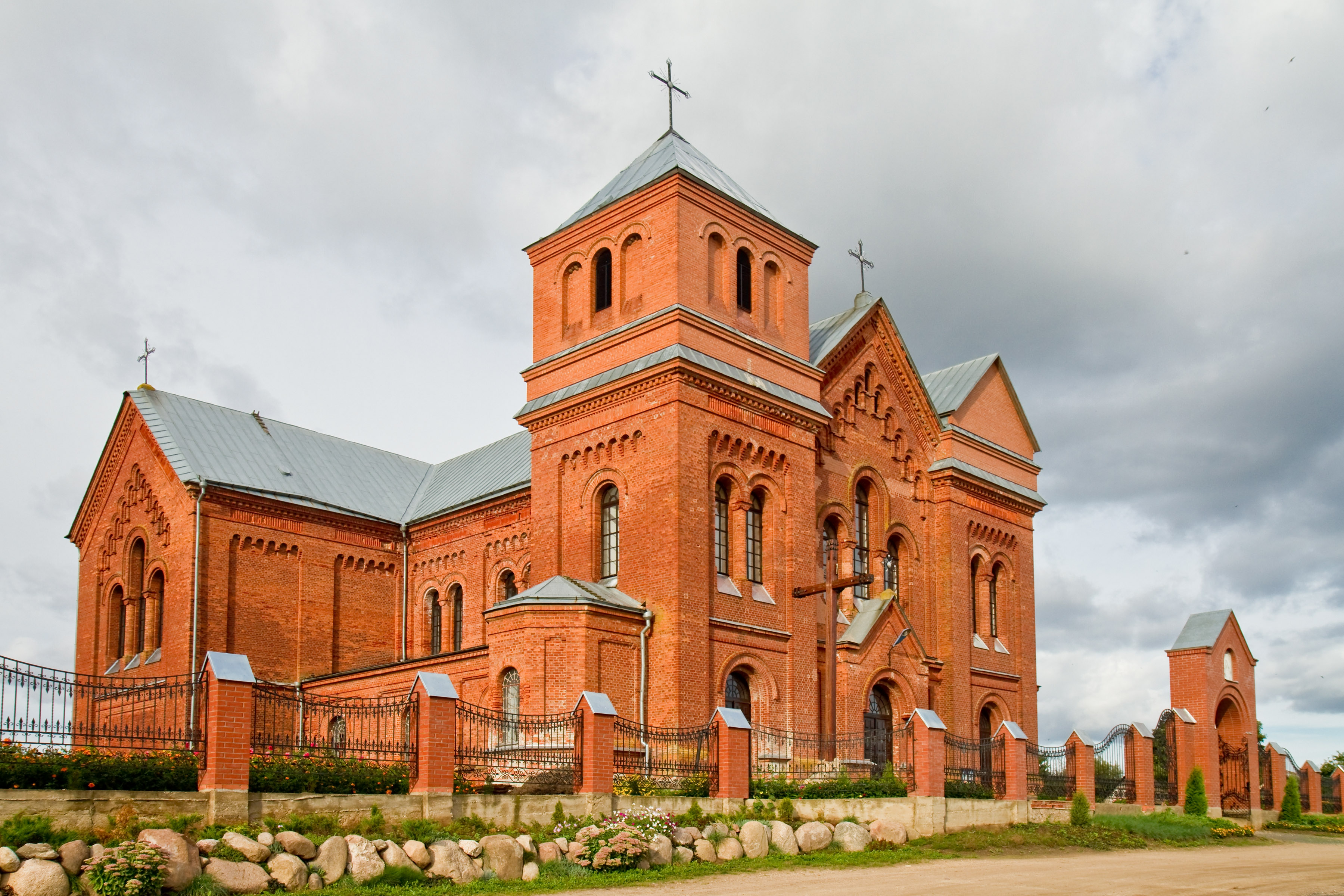 Catholic church of the Holy Trinity in Rosica. Vierchniadźvinsk district, Viciebsk province, Belarus.